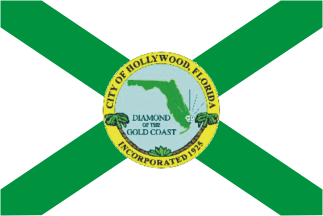 The official city flag of Hollywood, Florida. Consisting of the city seal on a green saltire.